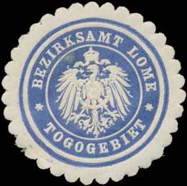 Sealing stamp Title: Bezirksamt Lome Togogebiet Description: Place: Lome/Togo size: 4 cm